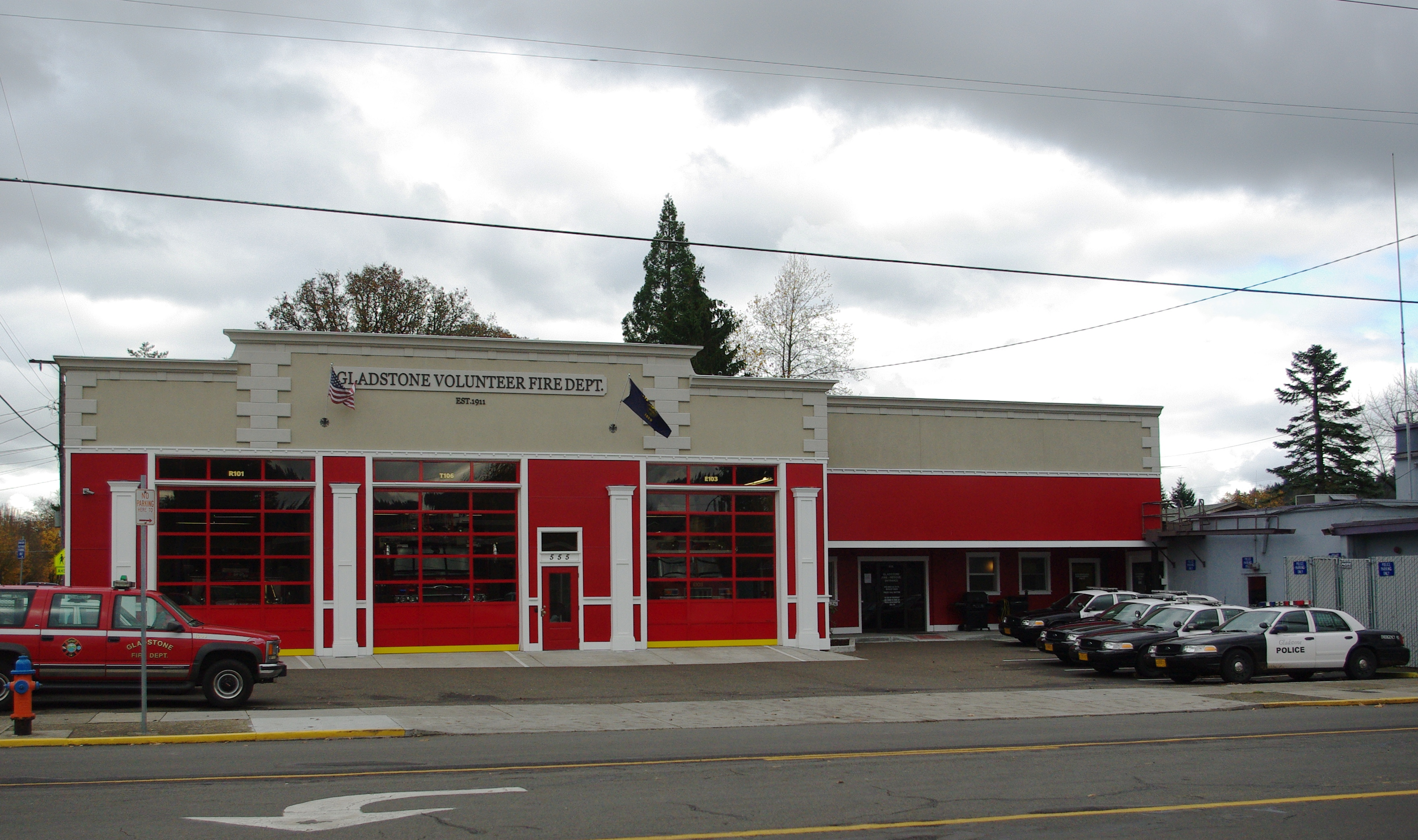 Gladstone, Oregon, USA, fire and police station on Portland Street.